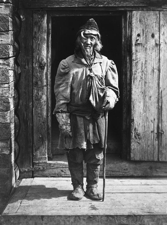 Yakut Sakha elder Beginning of the 20th c. Yakutia